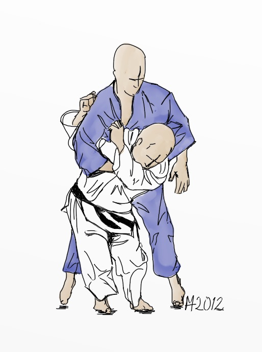 Illustration of the judo throw seoi-nage, or one-handed shoulder-throw, where you turn in infront of your opponent and trap his arm in the crook of your arm to throw the opponent over your shoulder.